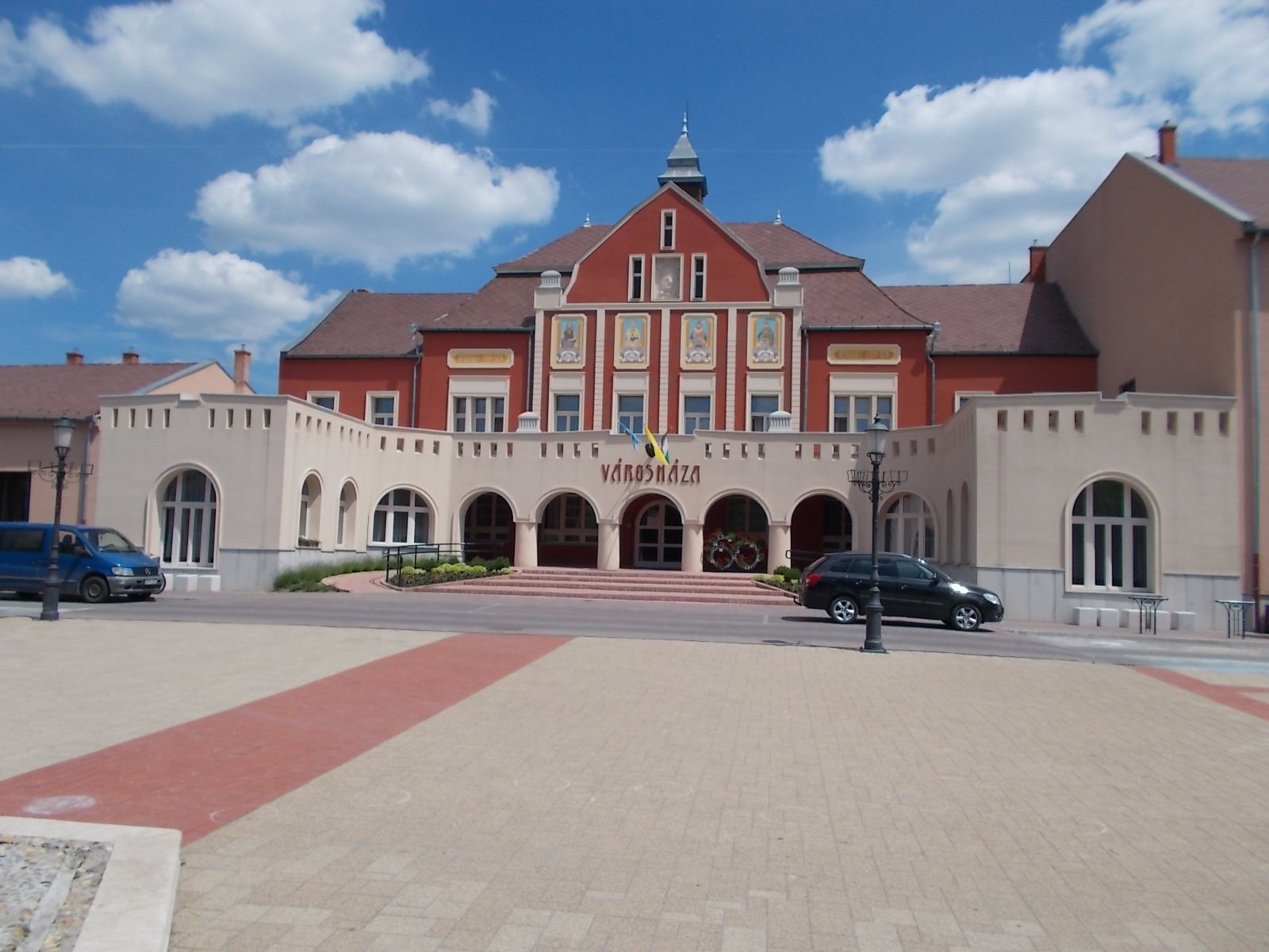 Town Hall . - 2 Kossuth Square, Hatvan, Heves County, Hungary.